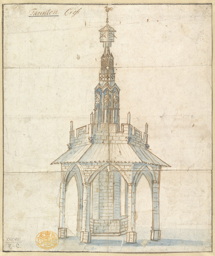 Taunton Cross drawn approx 1770